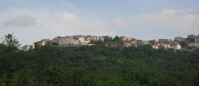 Panoramic view of Sant'Agapito